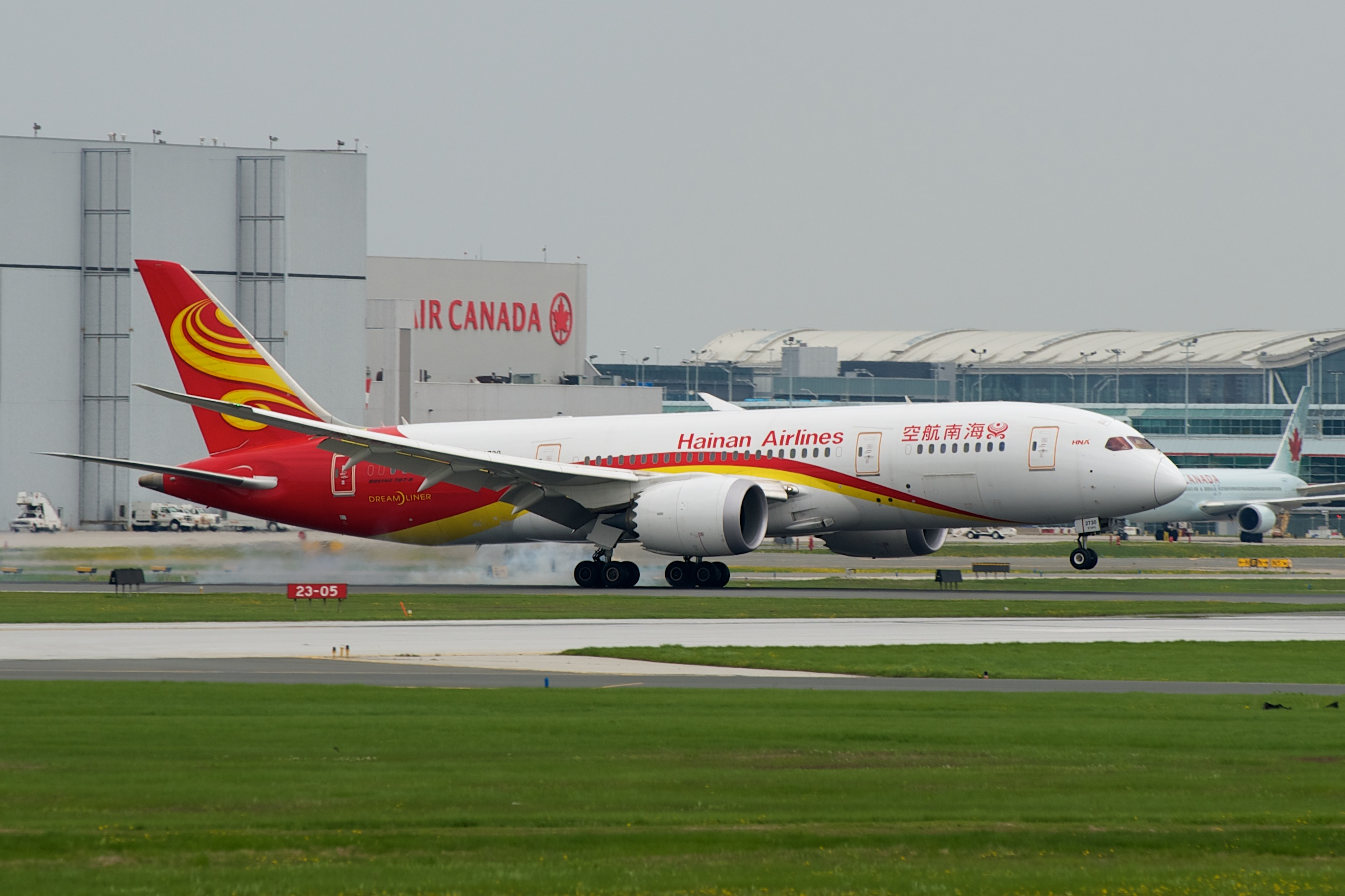 Touchdown on Runway 23, Toronto-Pearson.